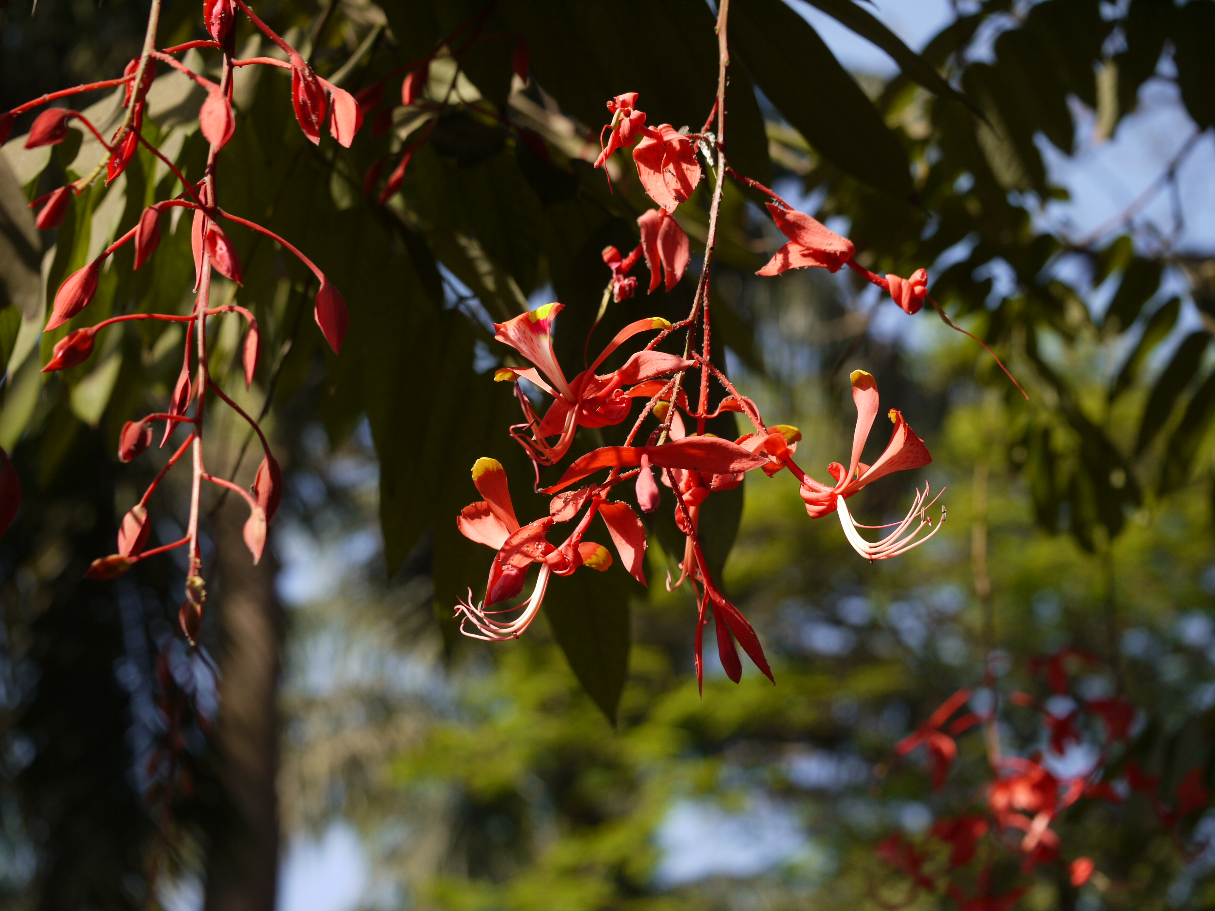 Amherstia nobilis